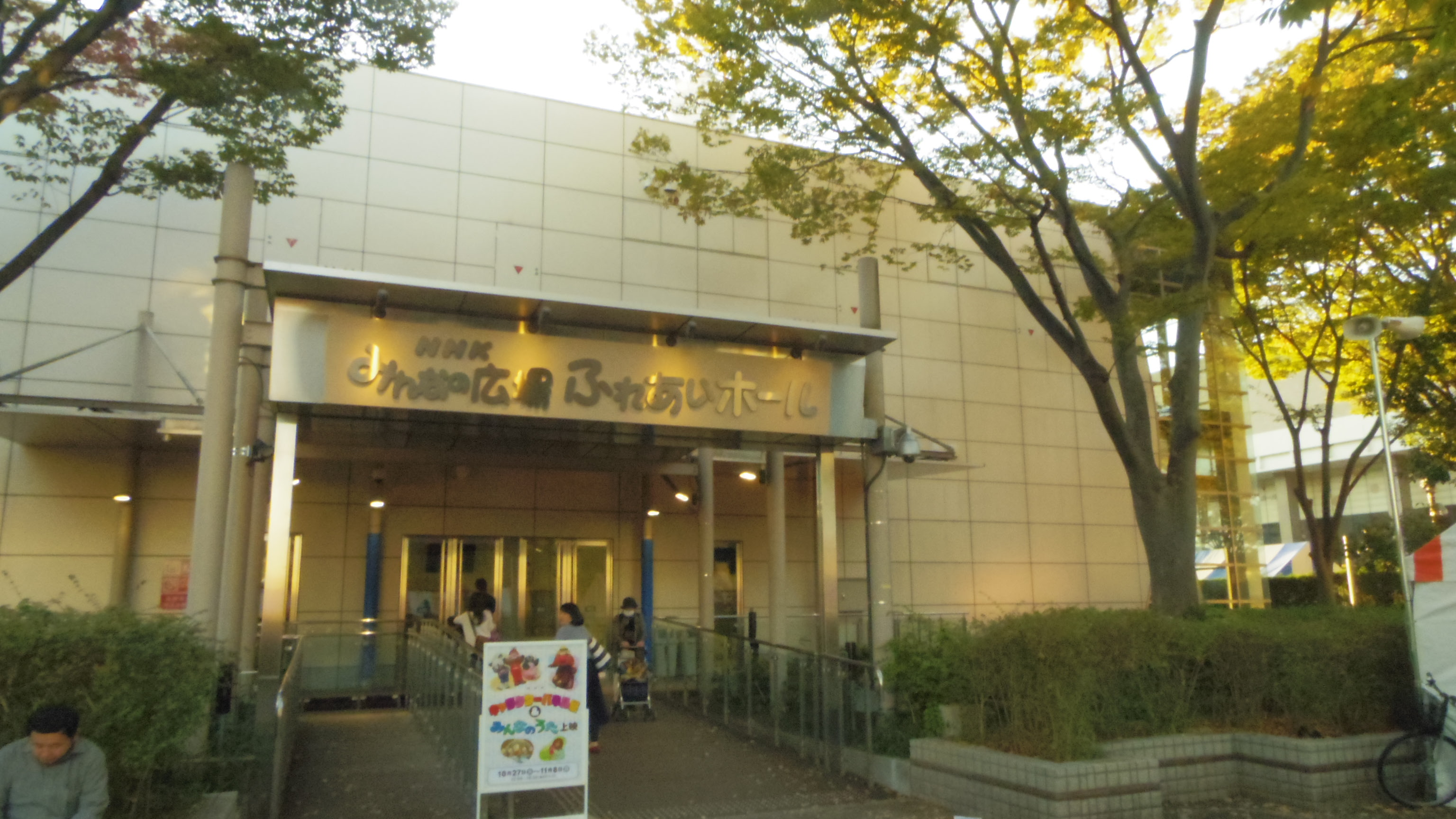 NHK "Minna no hiroba Fureai-Hall" from Shibuya, Tokyo. (Photographed it 3 November, 2015)